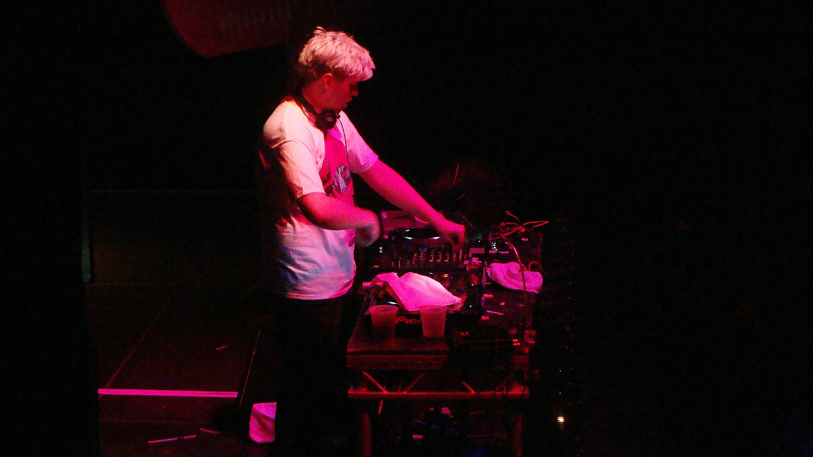 Flux Pavilion, 2012